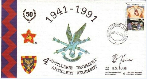 SADF 4 Artillery Commemorative Letter